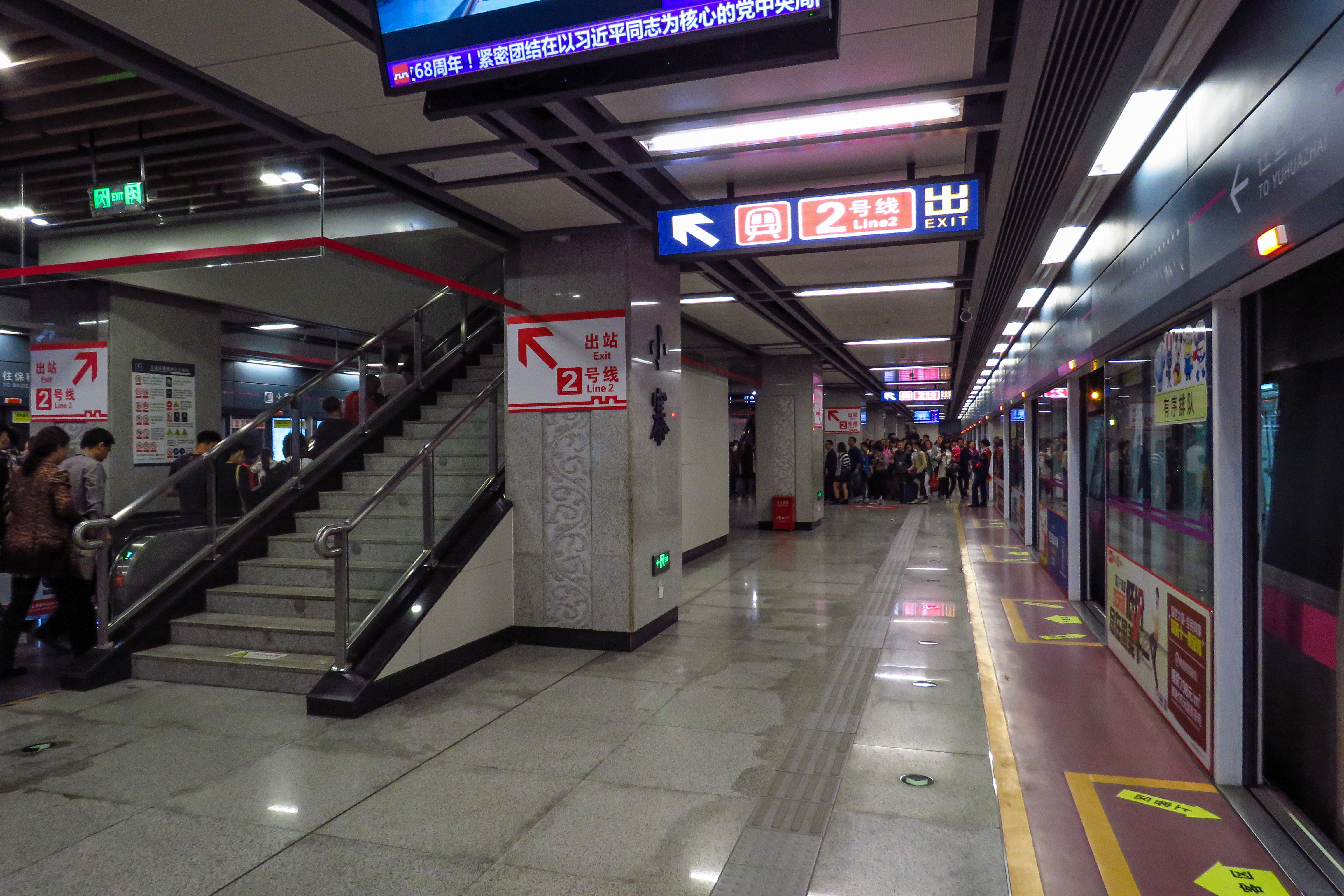 Now head for L2...